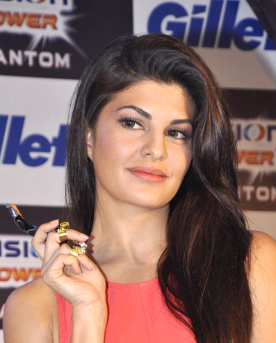 Jacqueline Fernandez at the launch Gillette's new range